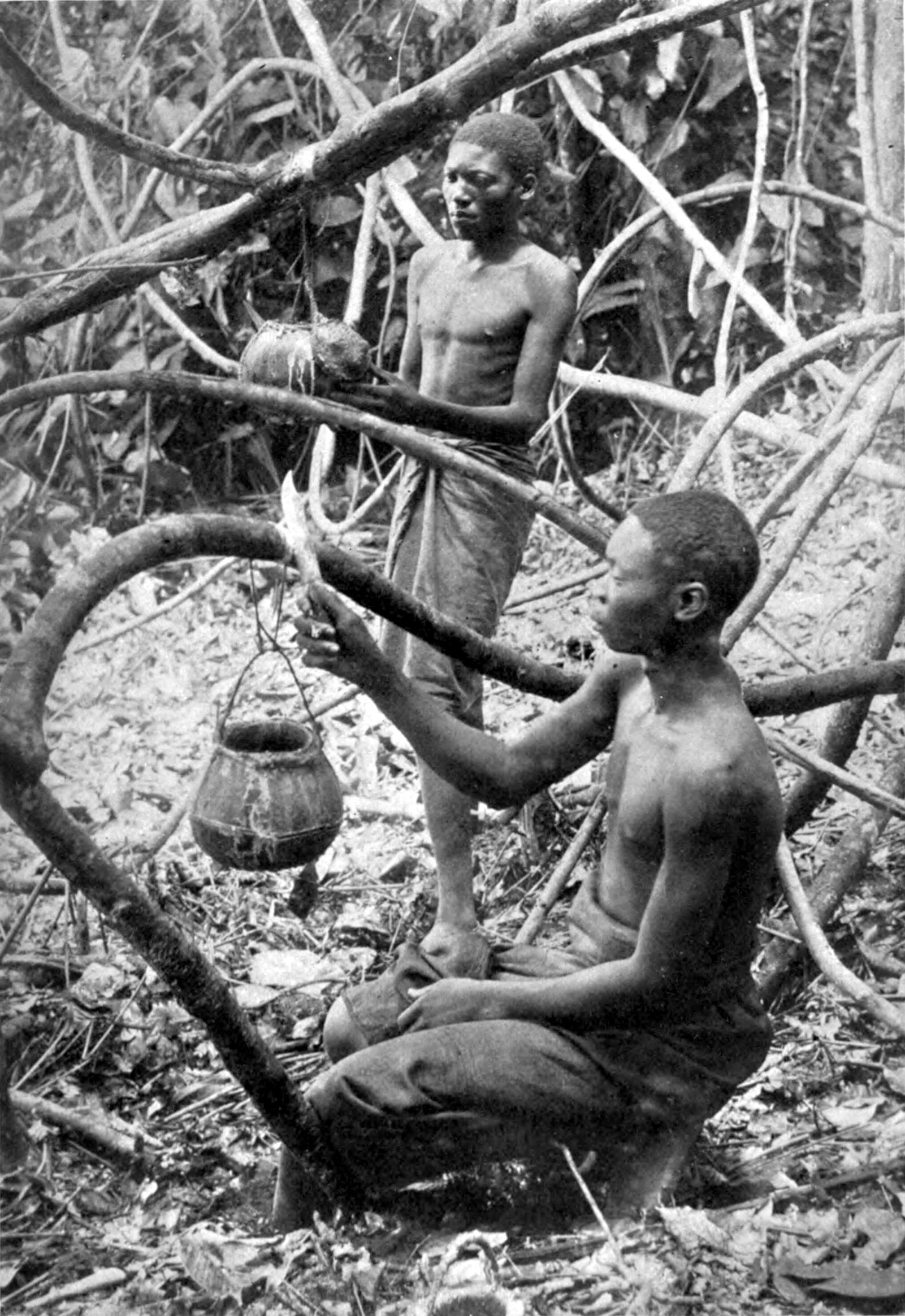 Collecting Rubber in Forest of Lusambo (Lualaba-Kassai) - p. 280